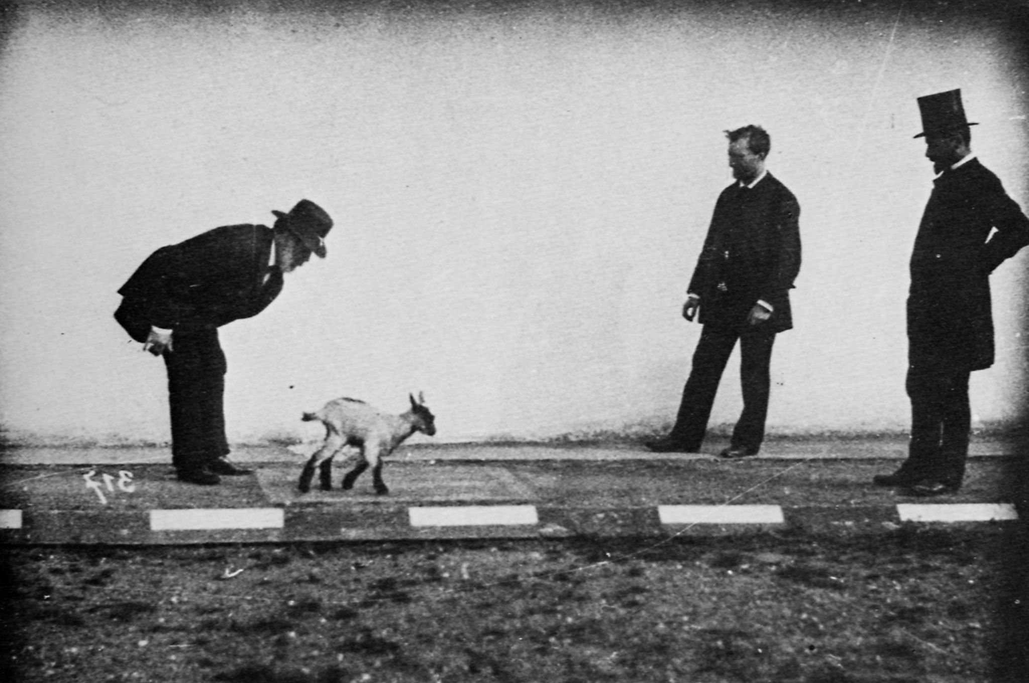 Kid goat in a physiological study